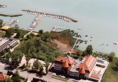 Balatonfüred- Hungary